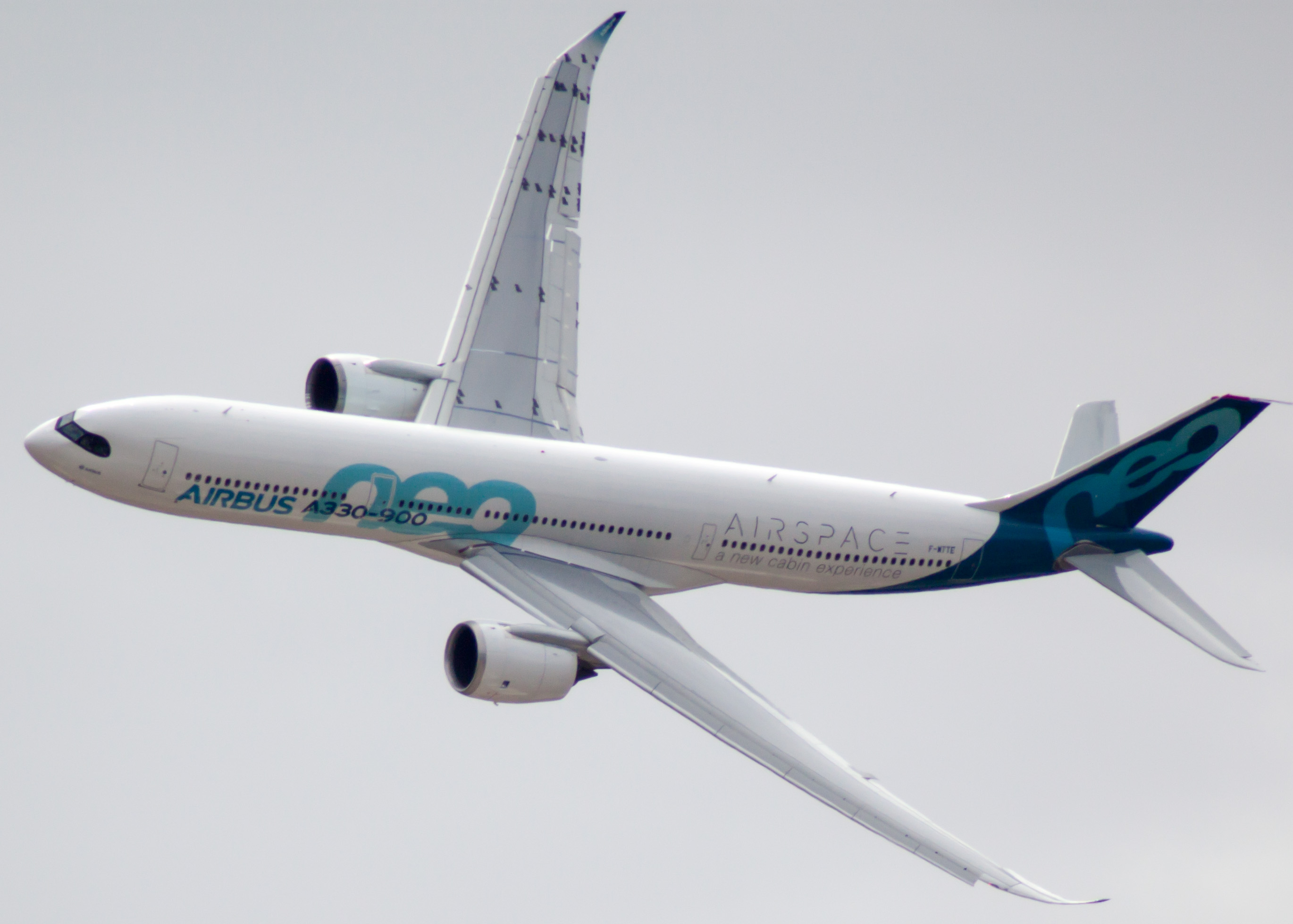 Farnborough Airshow 2018.